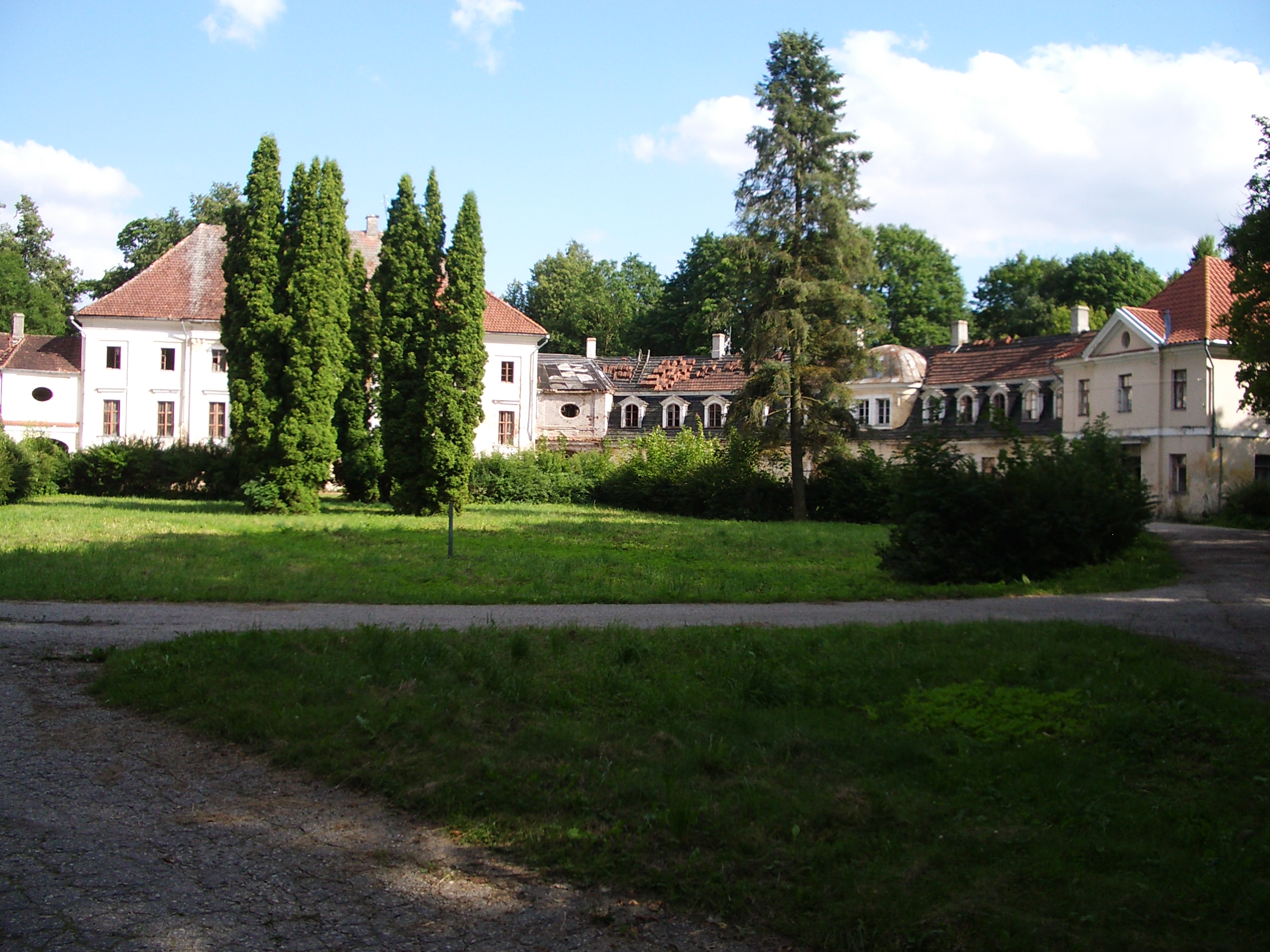 Kaucminde Manor